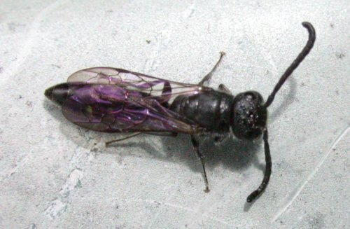 Sapyga quinquepunctata (F.) (Hymenoptera : Sapygidae) Photographed & uploaded by Keith Edkins, Cambridge, UK.